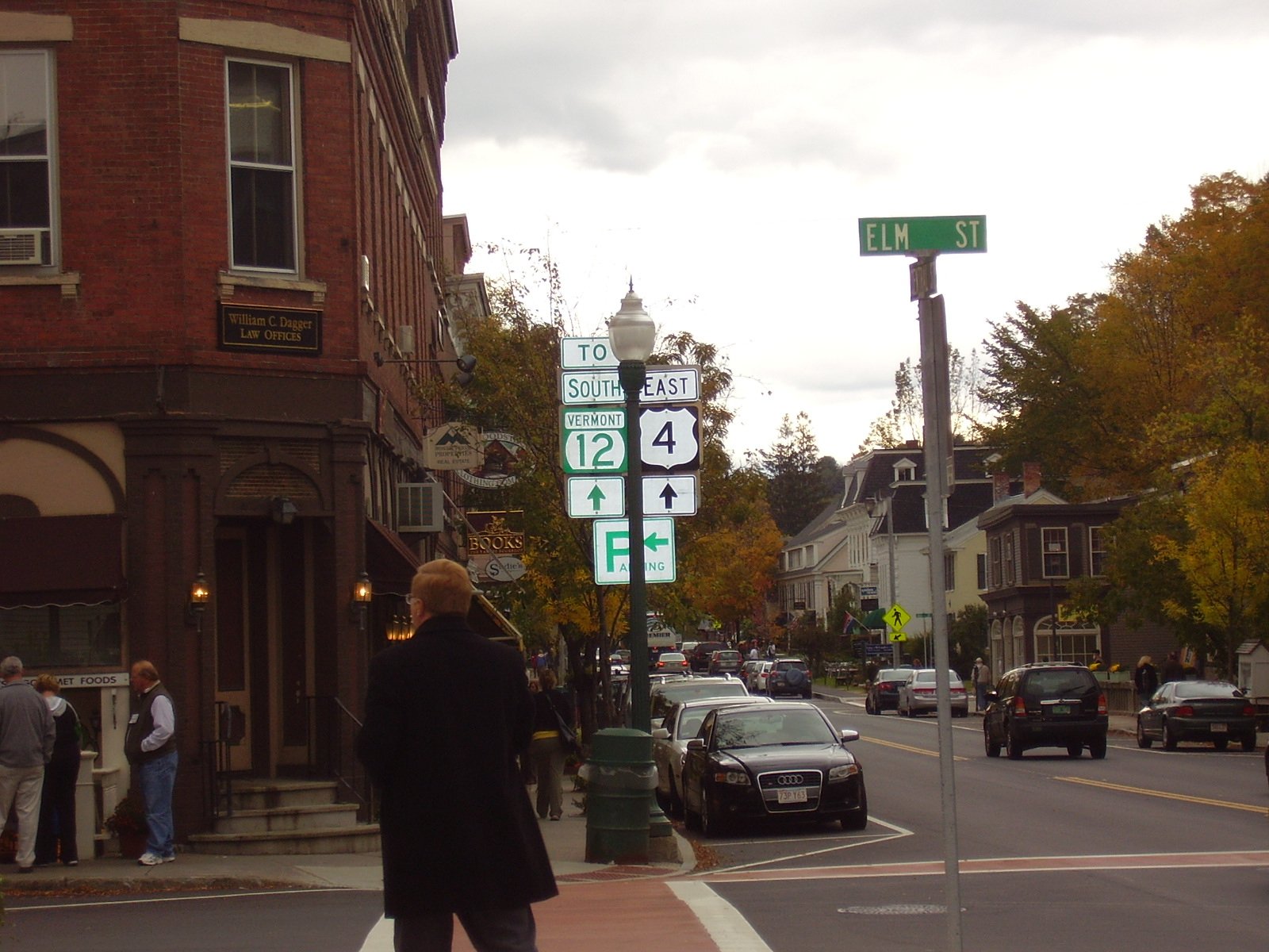 Junction of VT 12 north and US 4 in Woodstock village (Vermont). This is the west/north end of the overlap between the two routes.